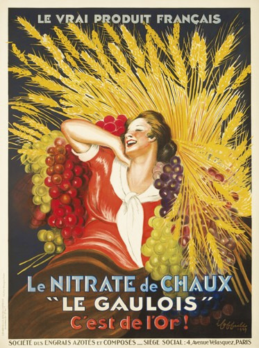 Poster Nitrate de chaux Le Gaulois